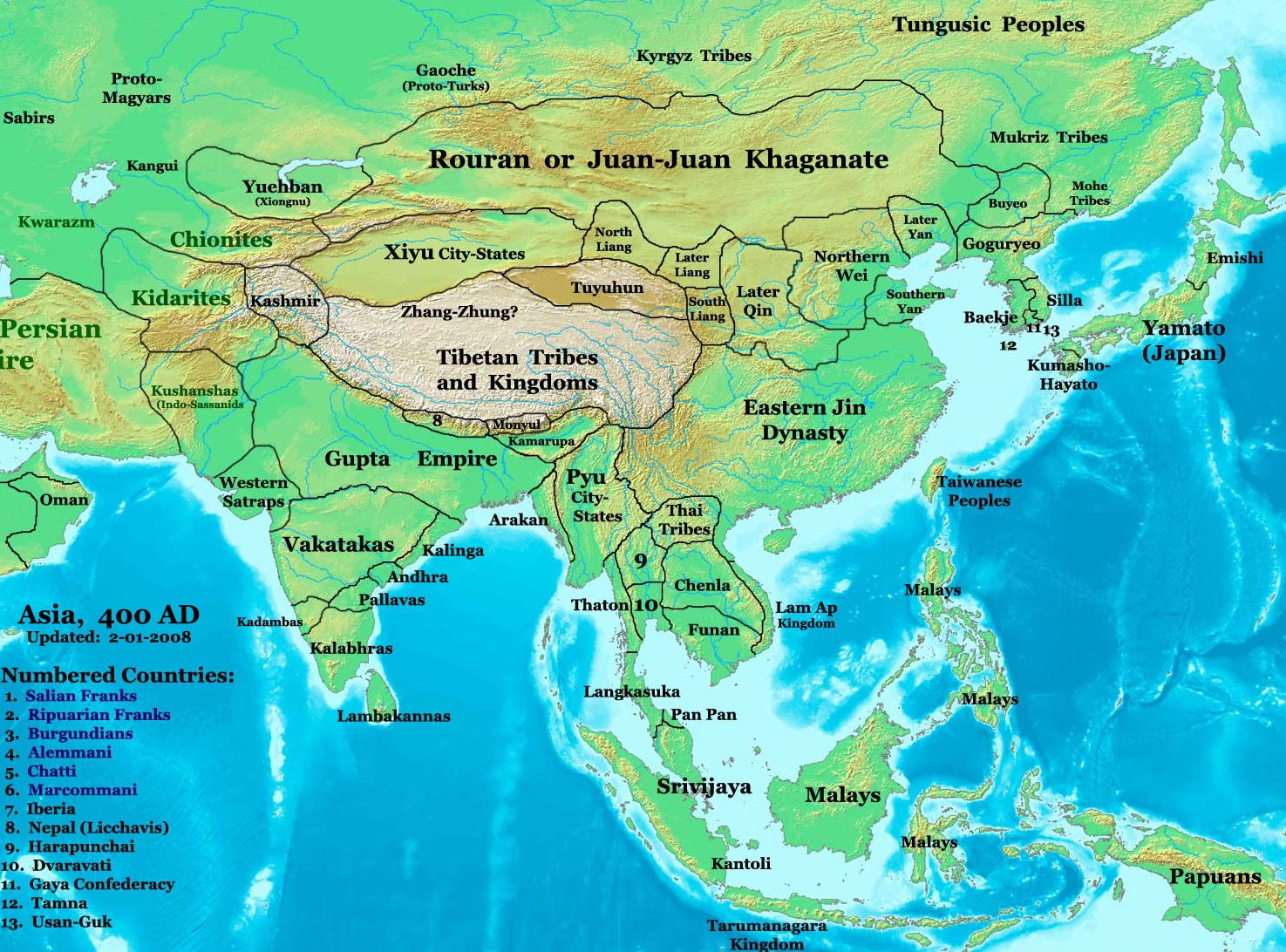 Asia in 400 AD This is a retouched picture, which means that it has been digitally altered from its original version. Modifications: Cropped to cover SE Asia only. The original can be viewed here: Asia 400ad.jpg: . Modifications made by Tappinen.